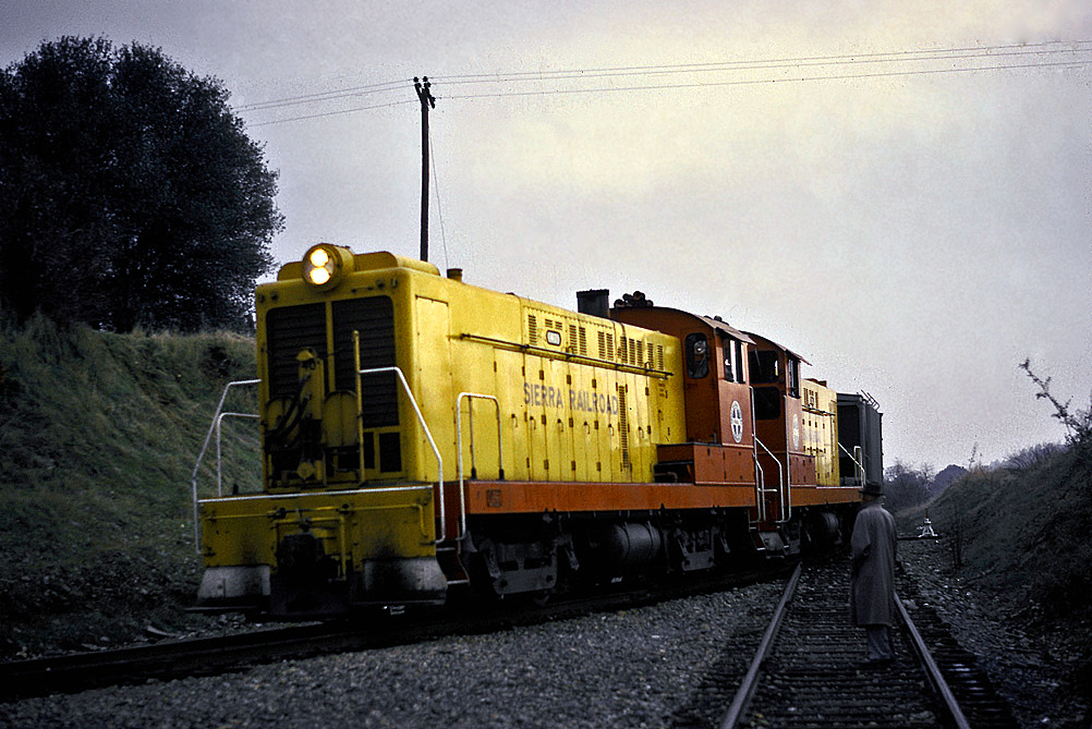 SRR 40 and 42 diesel locomotives at Jamestown, California. Jess Fowler Dec64RP